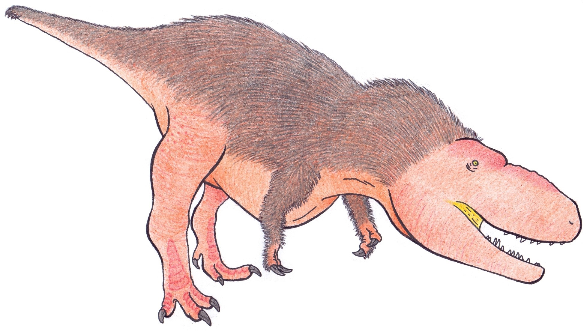 Daspletosaurus restoration based on FMNH specimen